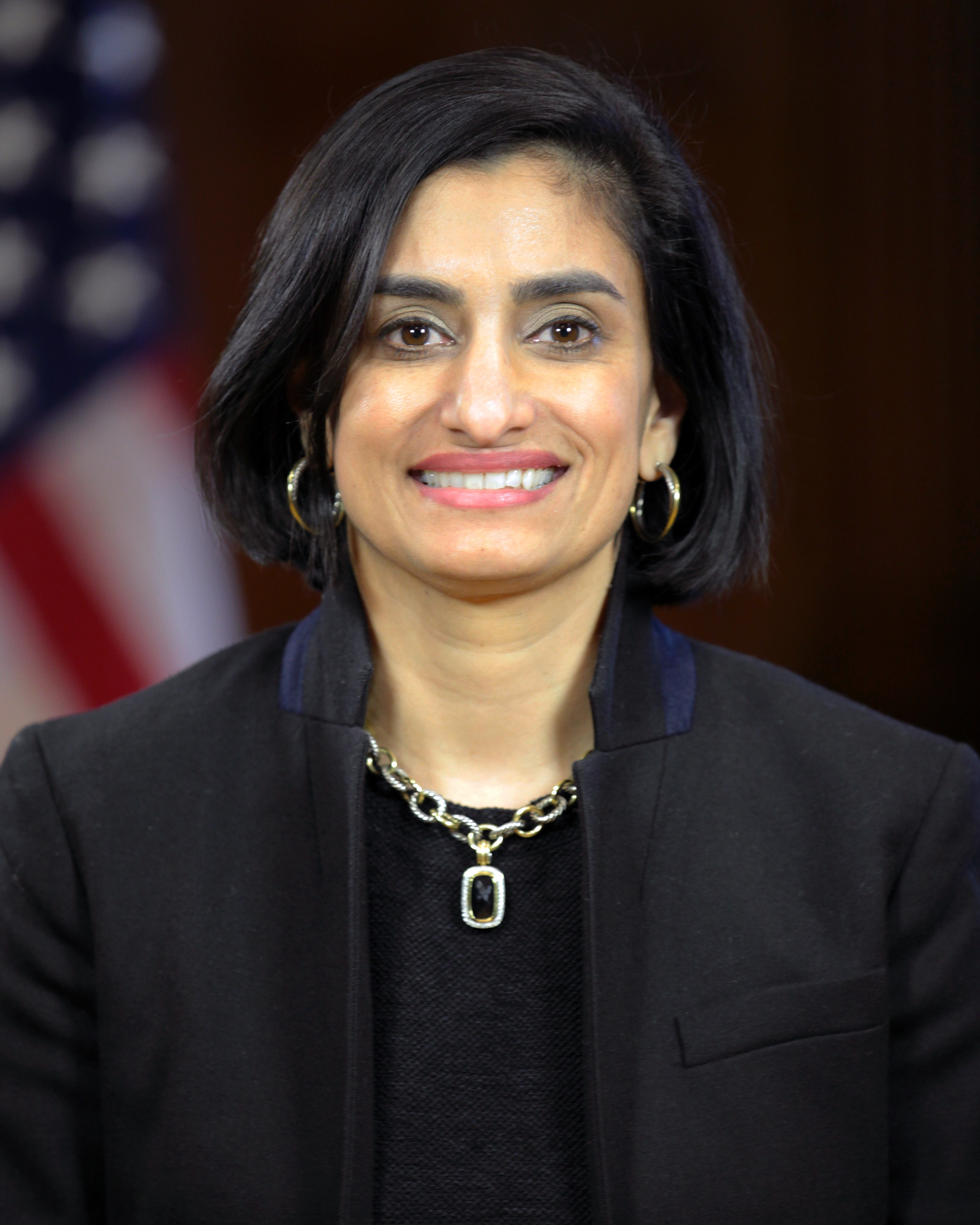 Portrait of Seema Verma, President-elect Donald Trump's choice for Centers for Medicare and Medicaid Services Administrator